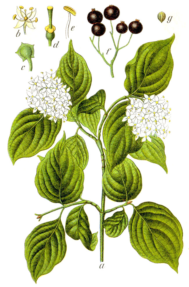 Cornus sanguinea L. (1753) Cornus foemina P. Mill. (1768) ? Original Caption Echter Hartriegel, Cornus femina